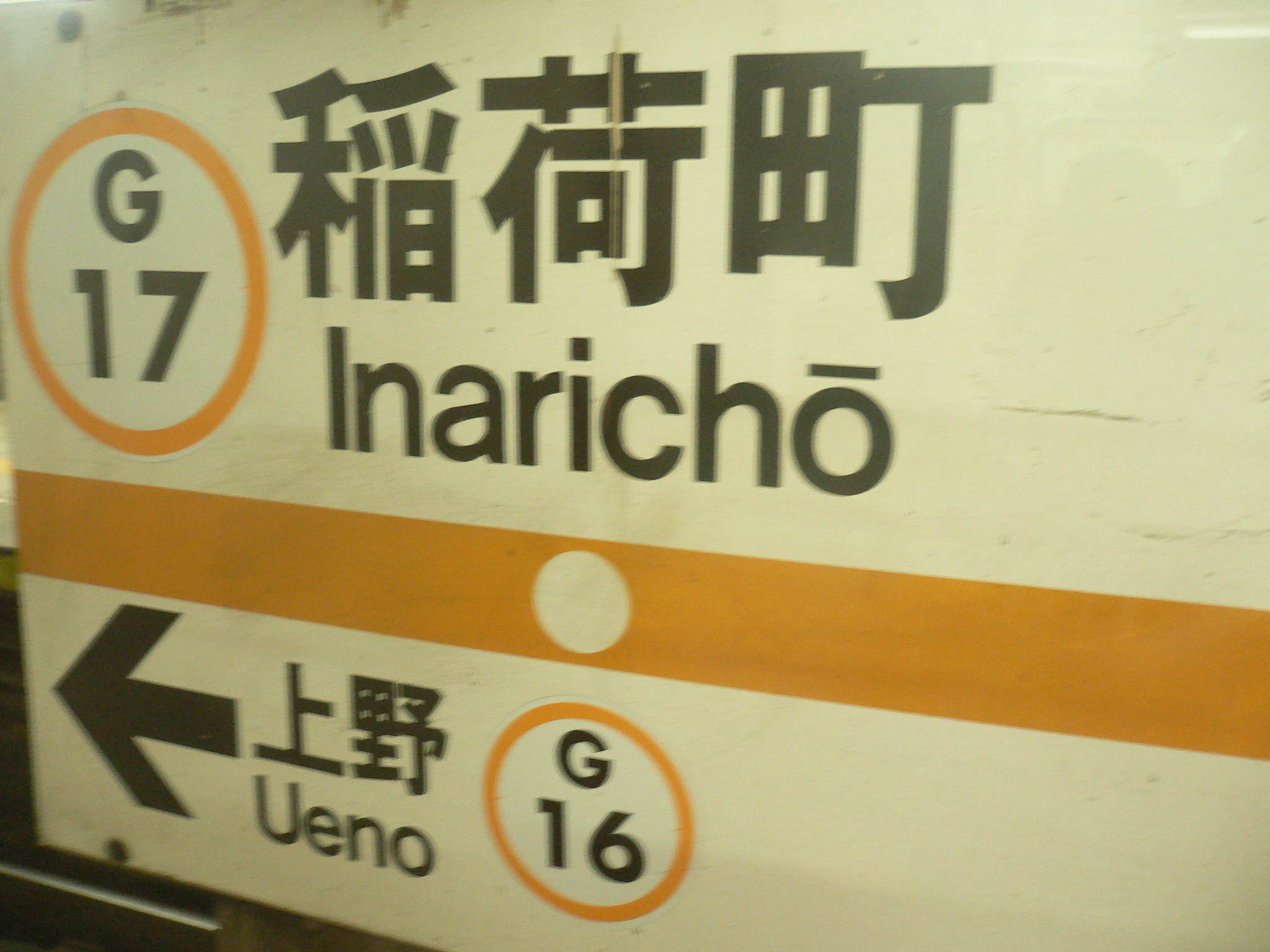 Inaricho Station(稲荷町駅) in Taito W, Tokyo M.